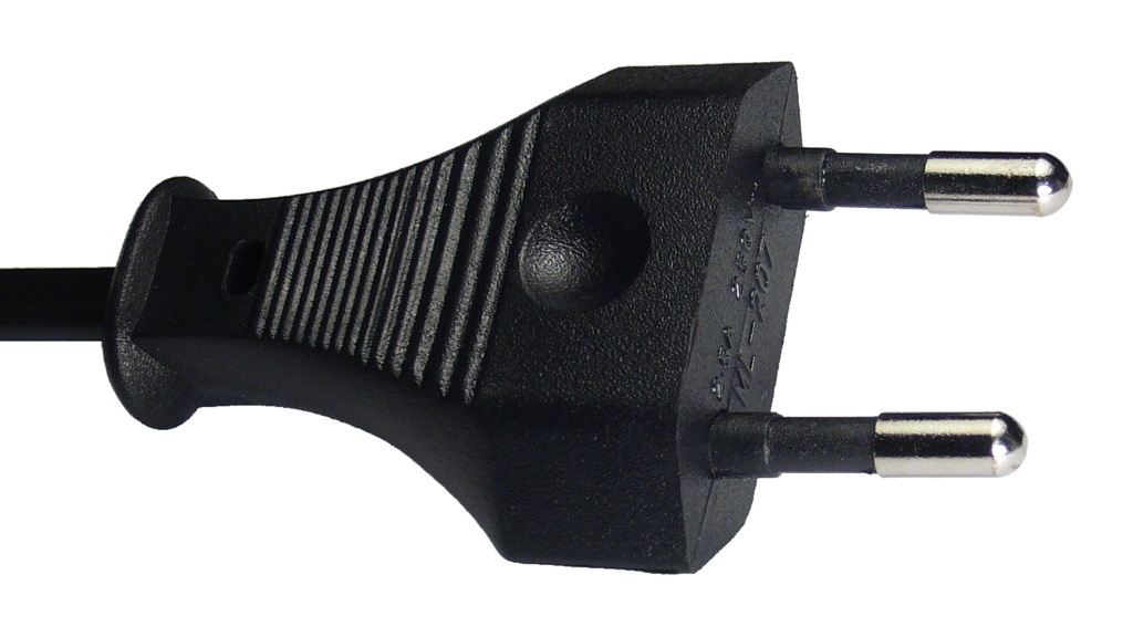 Flat implementation (CEE 7/16) of the europlug.